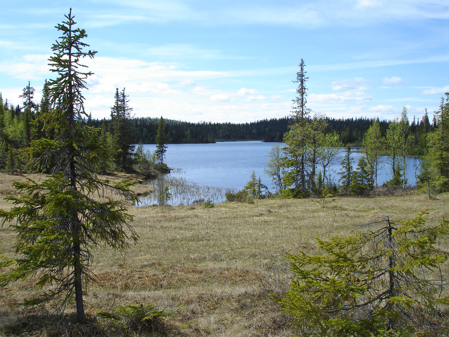 The southernmost lake Kalvtjärnarna in the nature reserve with the same name.